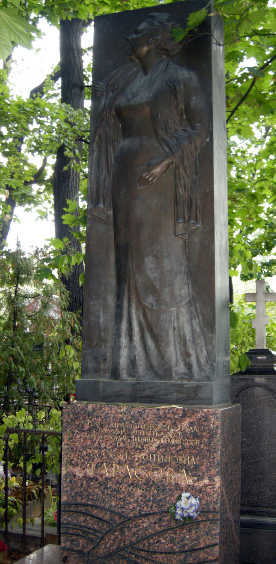 Monument to actress Alla Tarasova at Vvedensky cemetery in Moscow